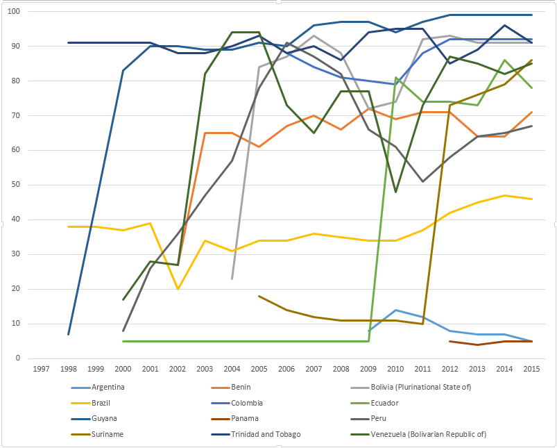 WHO-UNICEF estimates of yellow fever vaccine coverage in American countries, for the period 1997-2015.[1]